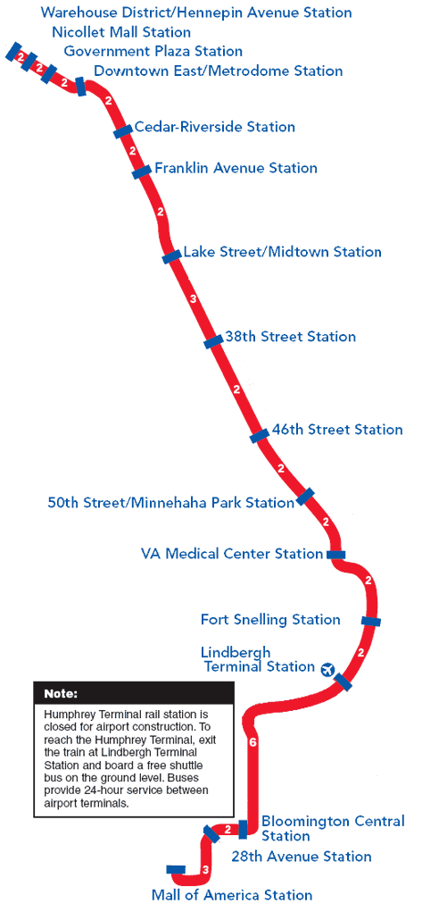 Map of Hiawatha Line, Minneapolis, Minnesota. Created by User:menean01, based on map at Uploaded by Menean01 on Wikipedia.